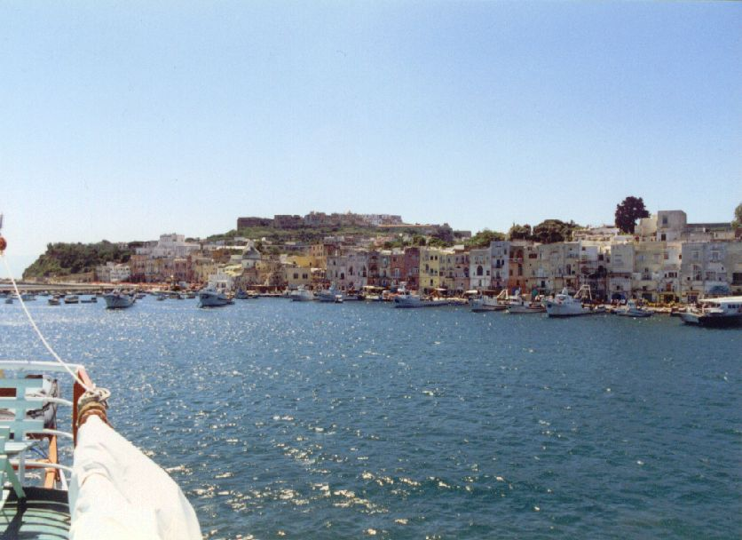 Island of Procida (Italy)